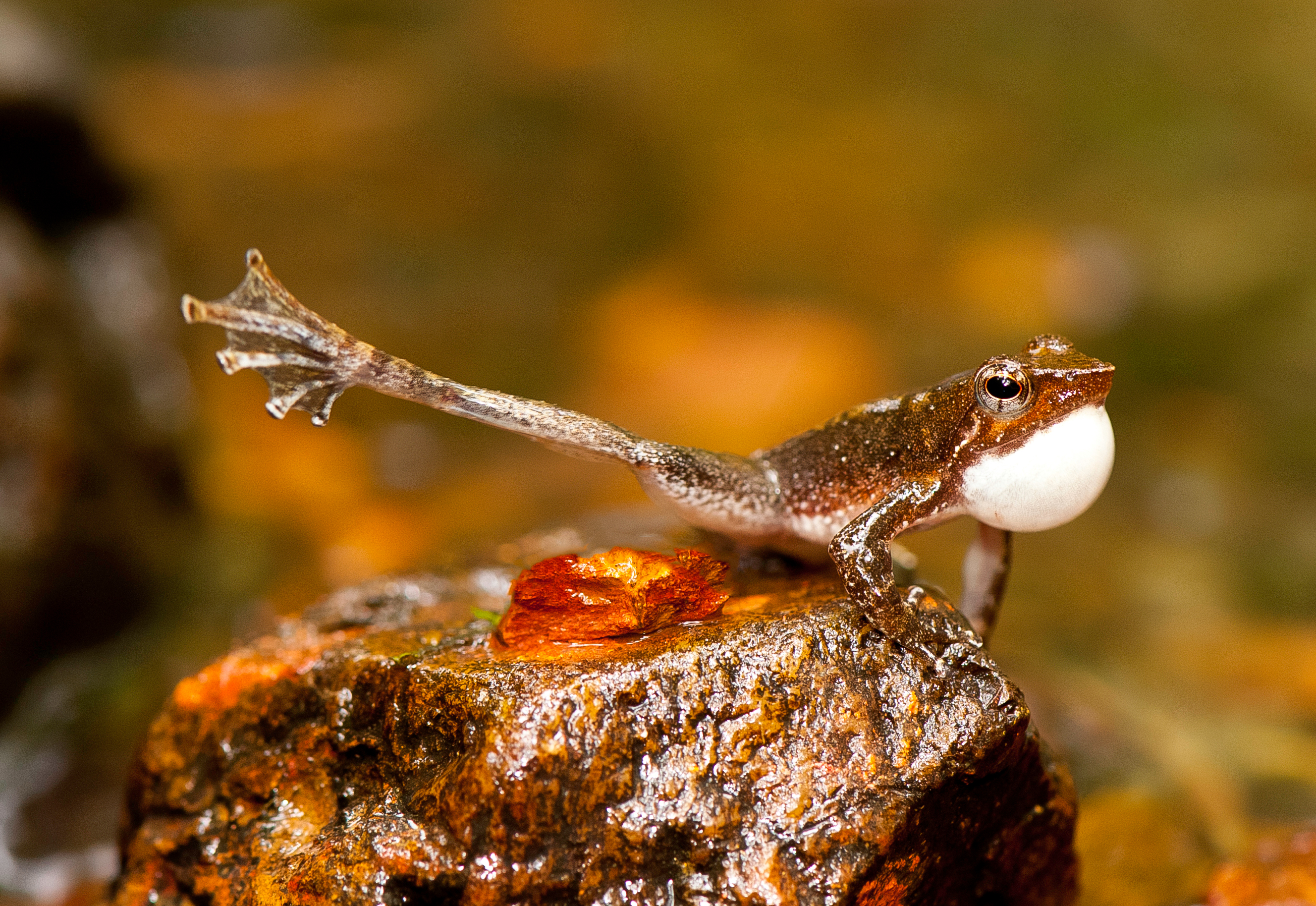 Foot-flagging behaviour by a Dancing Frog from India (Micrixalus spp).